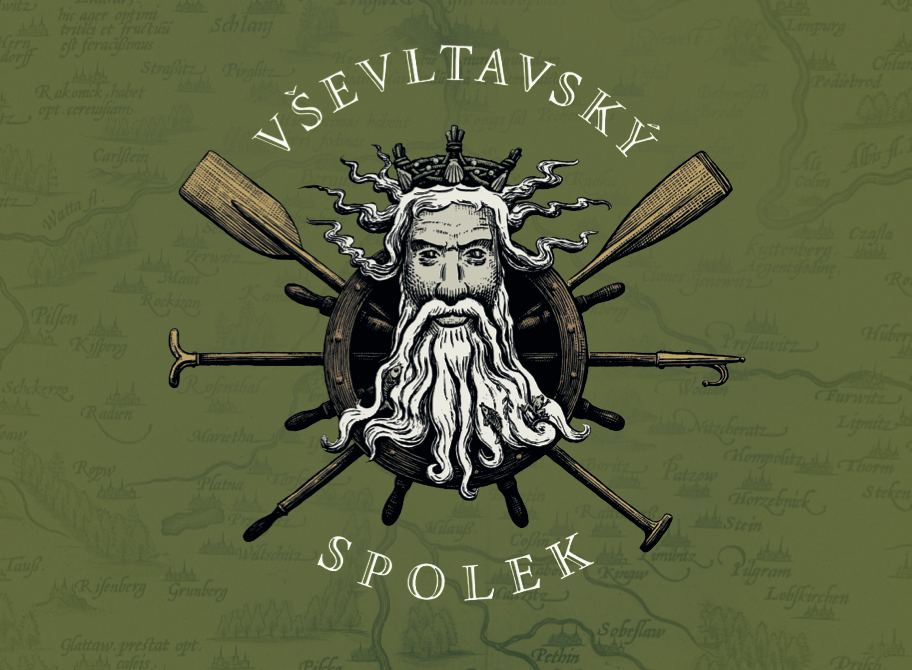 Vševltavský spolek